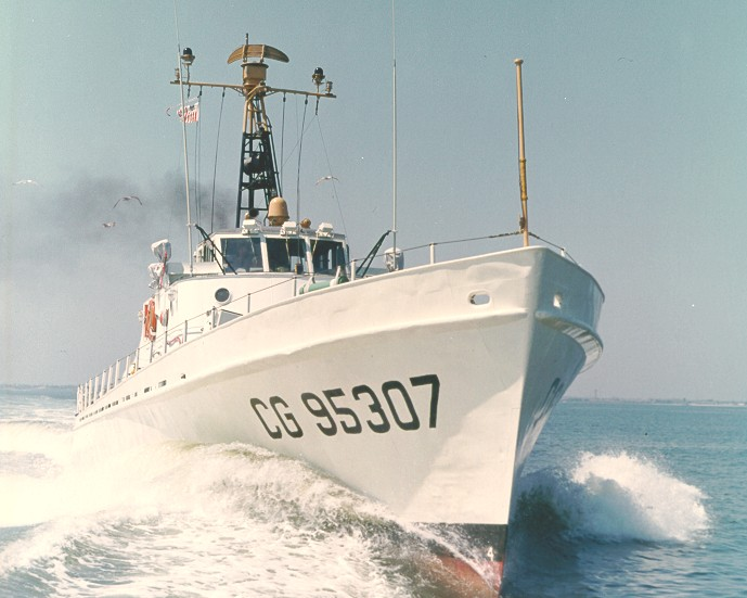 The CG-95307 (Type-A) (later-Cape Current) underway off Hampton Roads, Virginia, 1963.